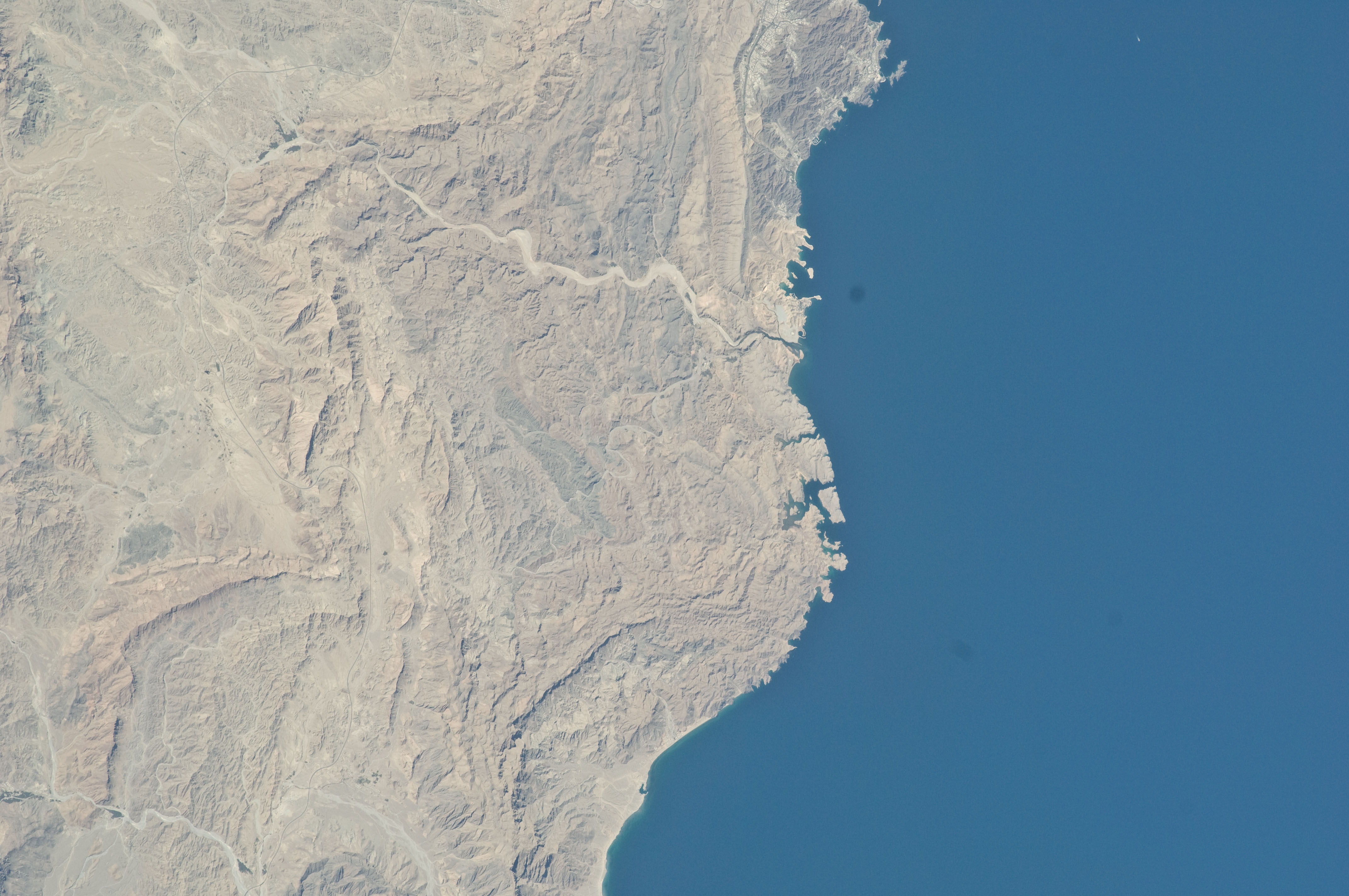 Astronaut Photo of Muscat, Oman taken from the International Space Station (ISS) during Expedition 25 on September 29, 2010.